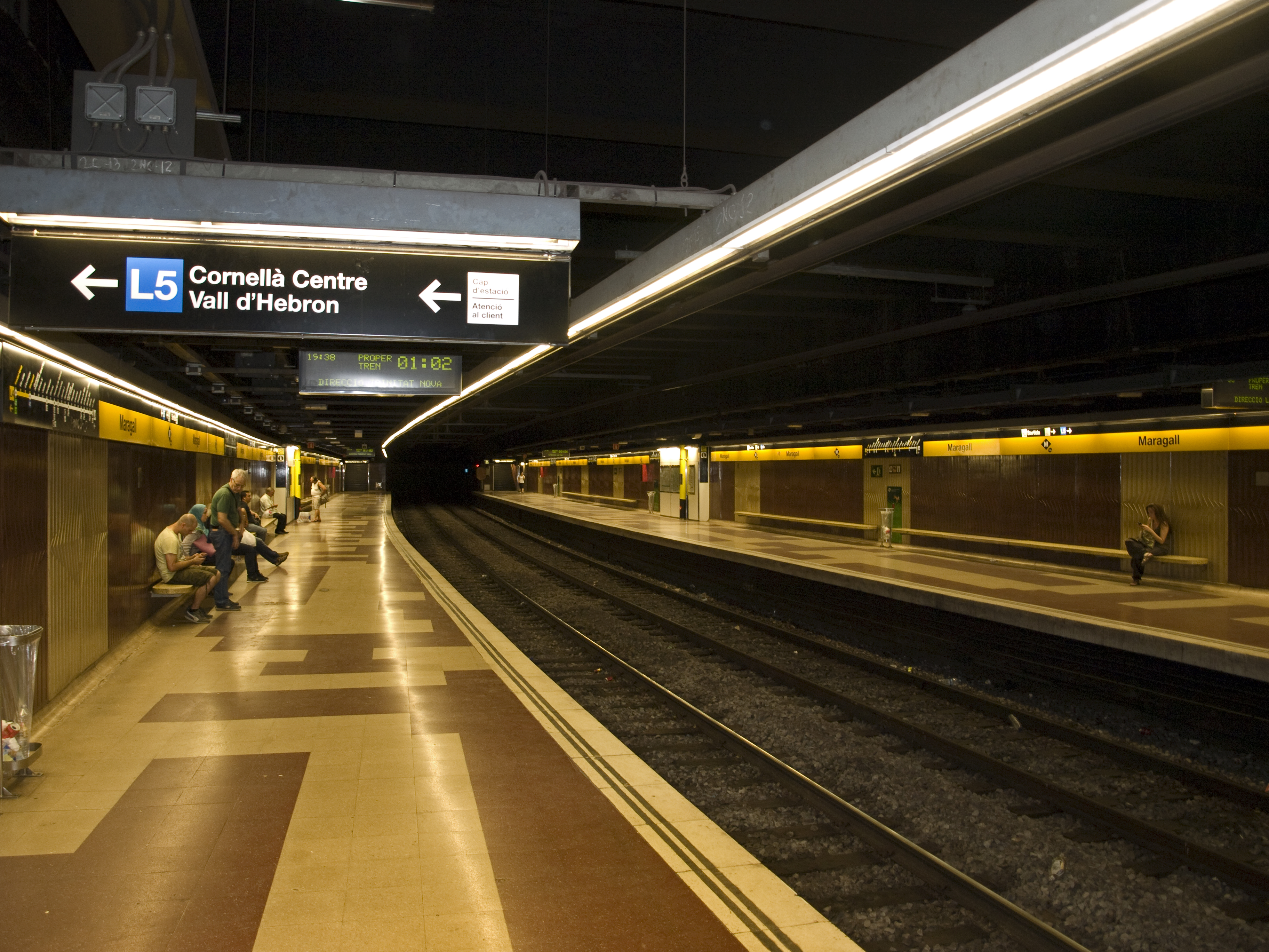 Magarall station platform Line L4, Barcelona Metro. The photo is taken from the northbound platform (direction Trinitat Nova).